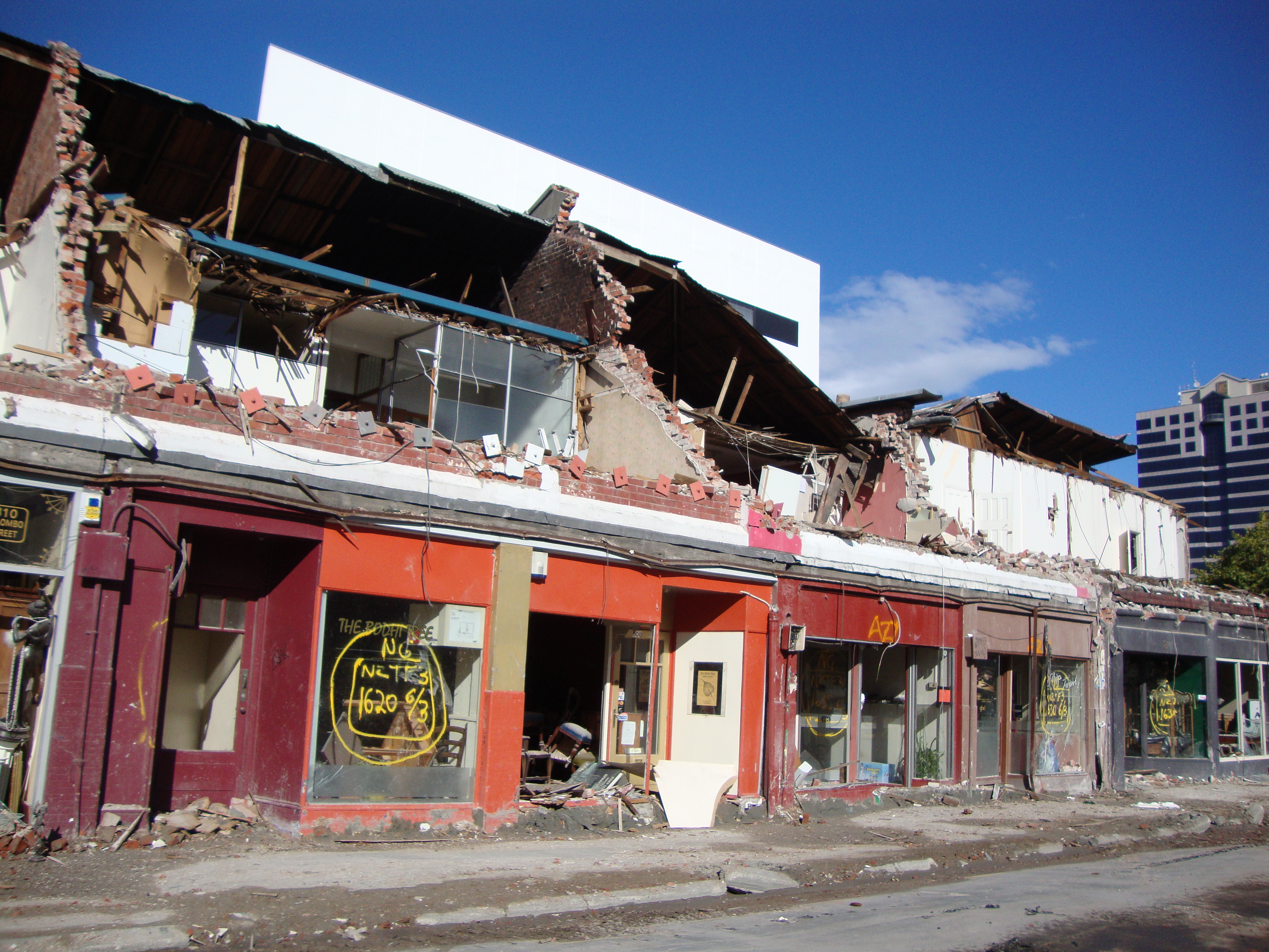 Colombo Street at Kilmore Street looking south. Buildings damaged by the 22 February 2011 earthquake.